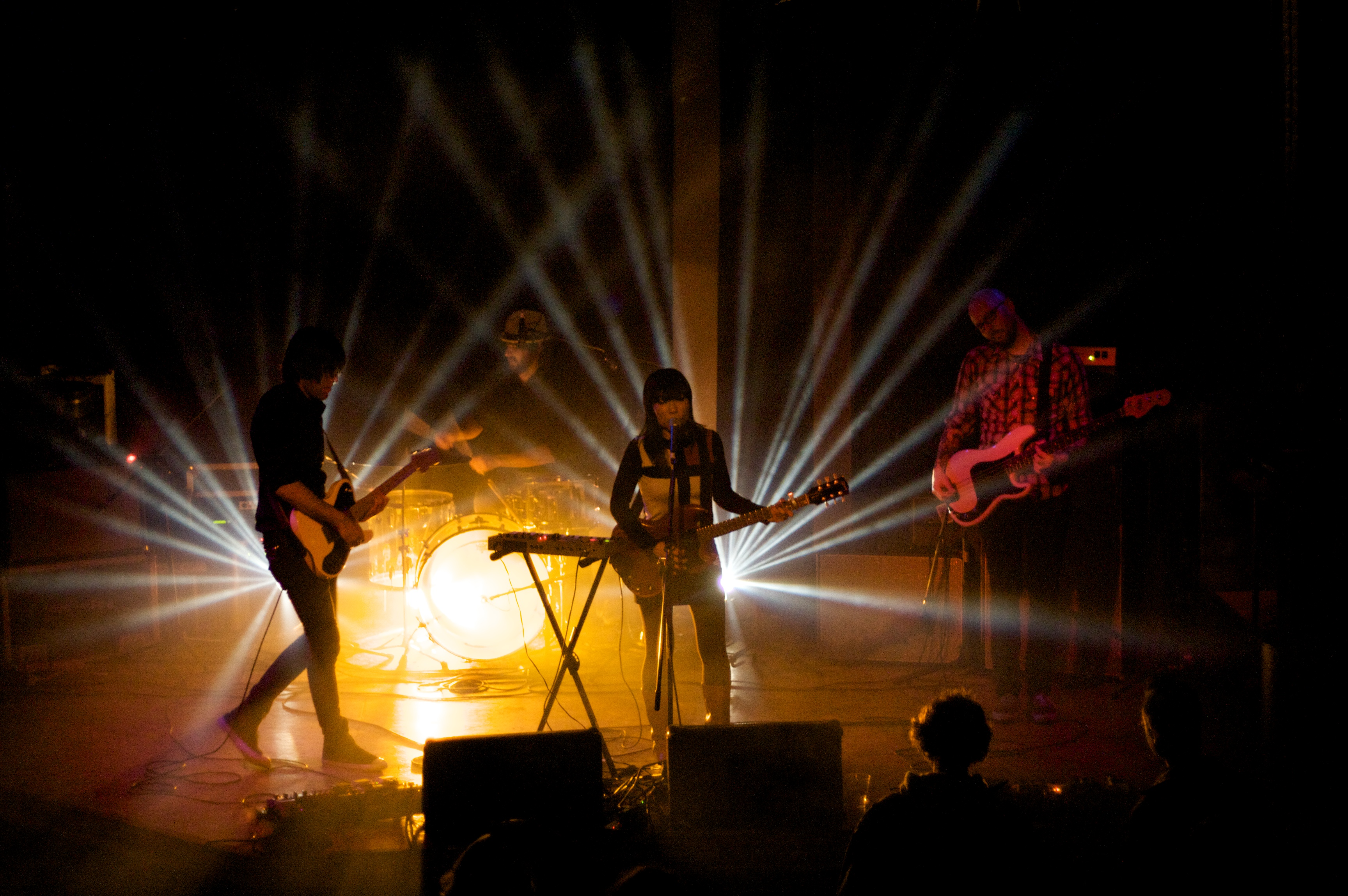 San Francisco indie rock band LoveLikeFire performing live at the Someday Lounge, Portland, Oregon. Left to right: Ted Parker, David Farrell, Ann Yu, Robert Kissinger.